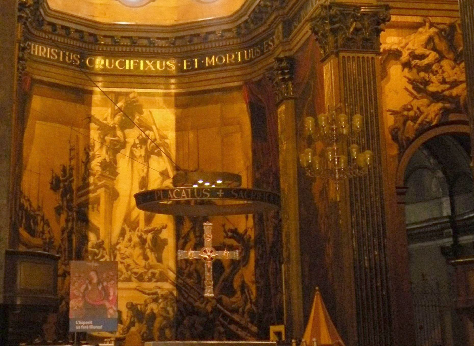 J. M. Sert frescos. Vic Cathedral